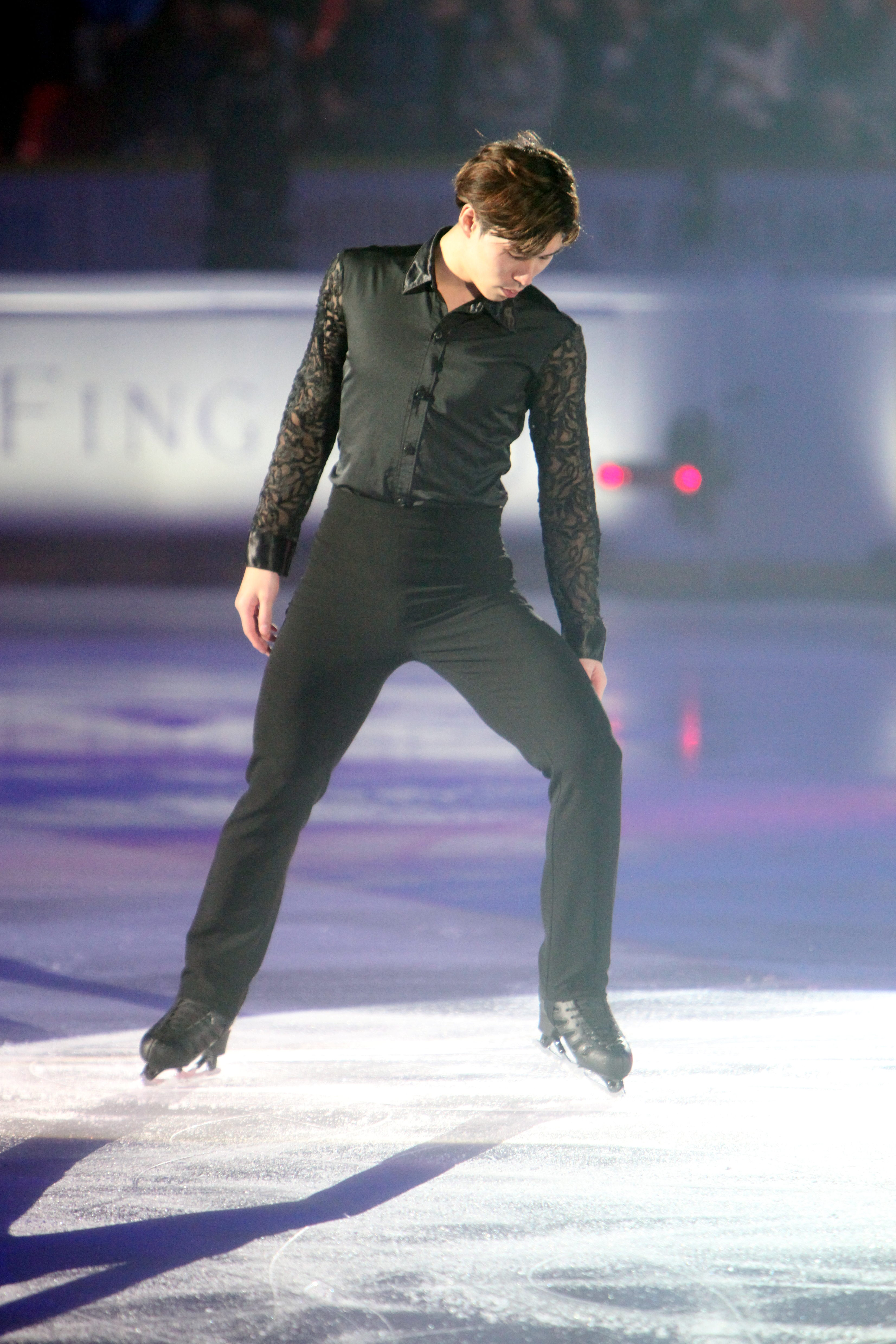 Keiji Tanaka during the gala at the Internationaux de France de Patinage 2018.